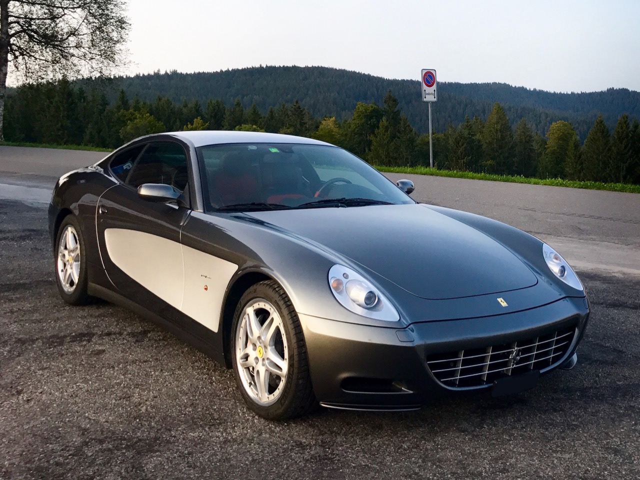 Picture of Ferrari 612 Berne GP Edition taken in the northern Alps in Switzerland.